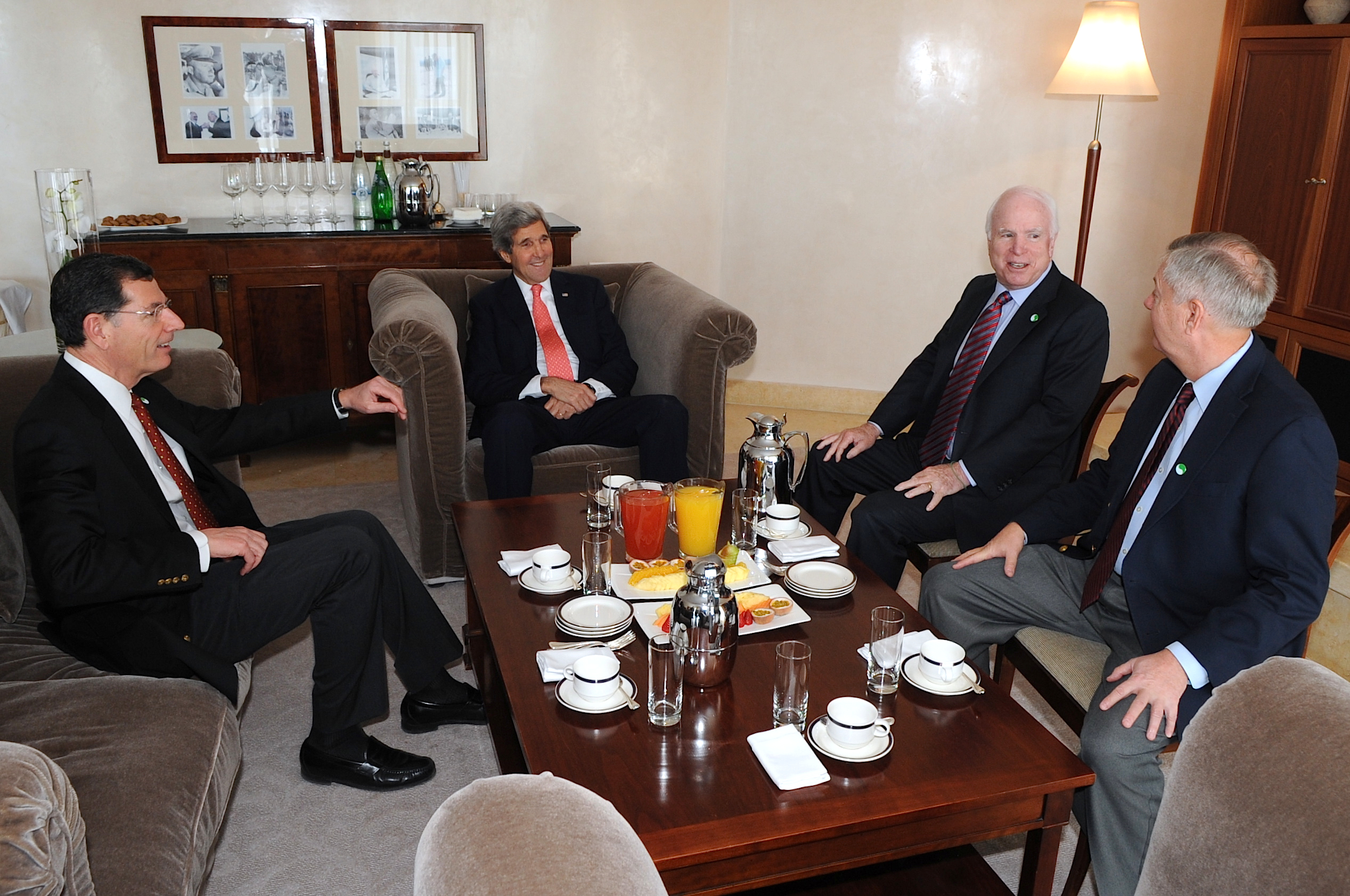 U.S. Secretary of State John Kerry meets with U.S. Senators John McCain of Arizona, Lindsey Graham of South Carolina, and John Barrasso of Wyoming in Jerusalem on January 3, 2014, as they travel through the Middle East and Central Asia, and as he engages in peace talks. [State Department photo/ Public Domain]